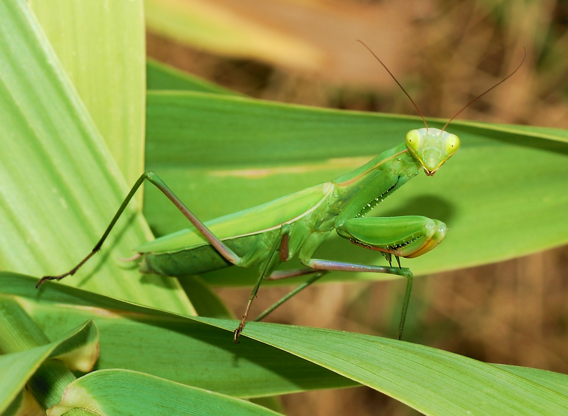 Mantis religiosa. Lisboa, Portugal.